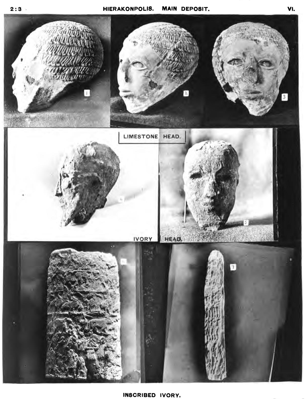 Hierakonpolis ivory objects